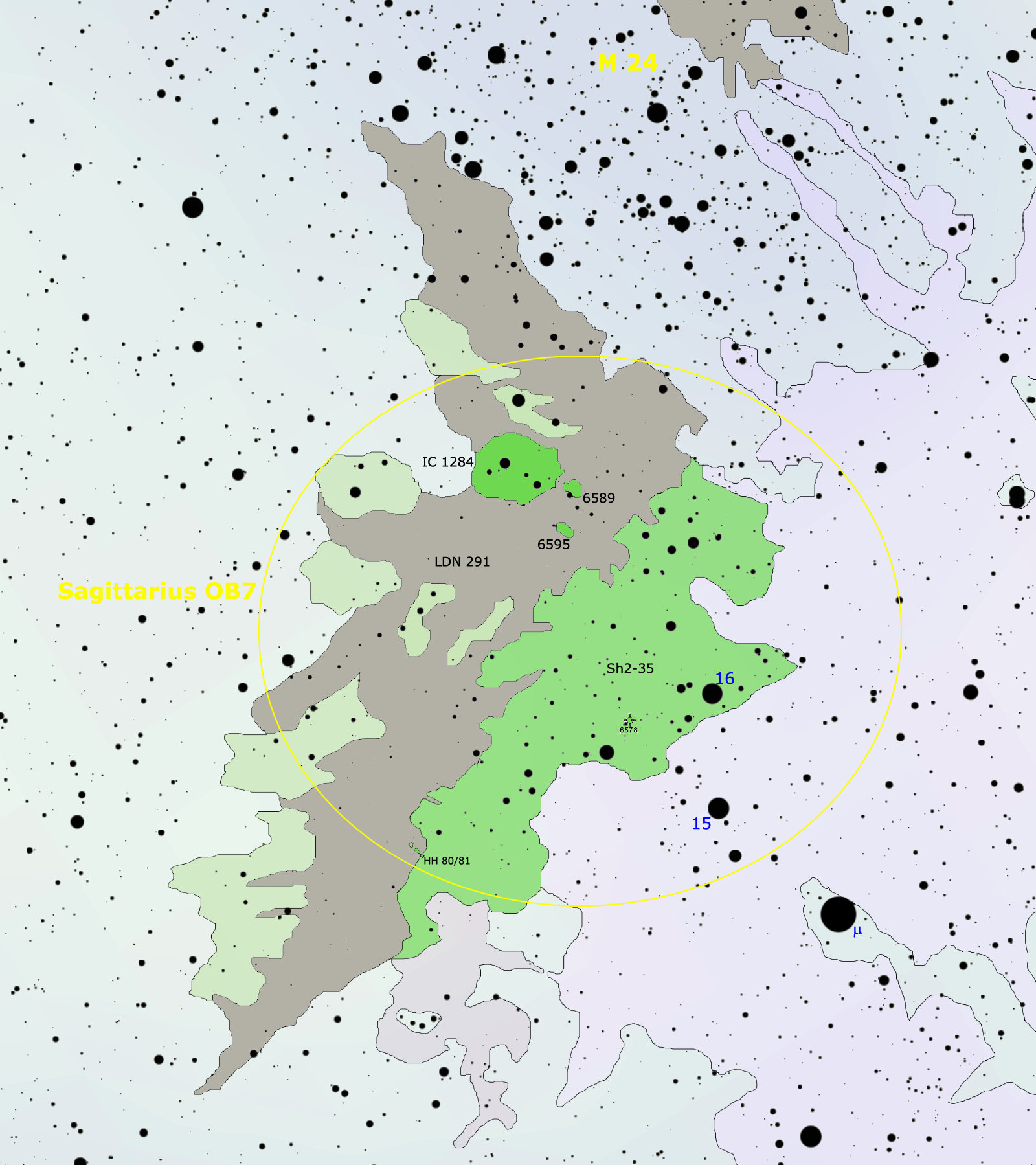 Detailed map of Sagittarius OB7.